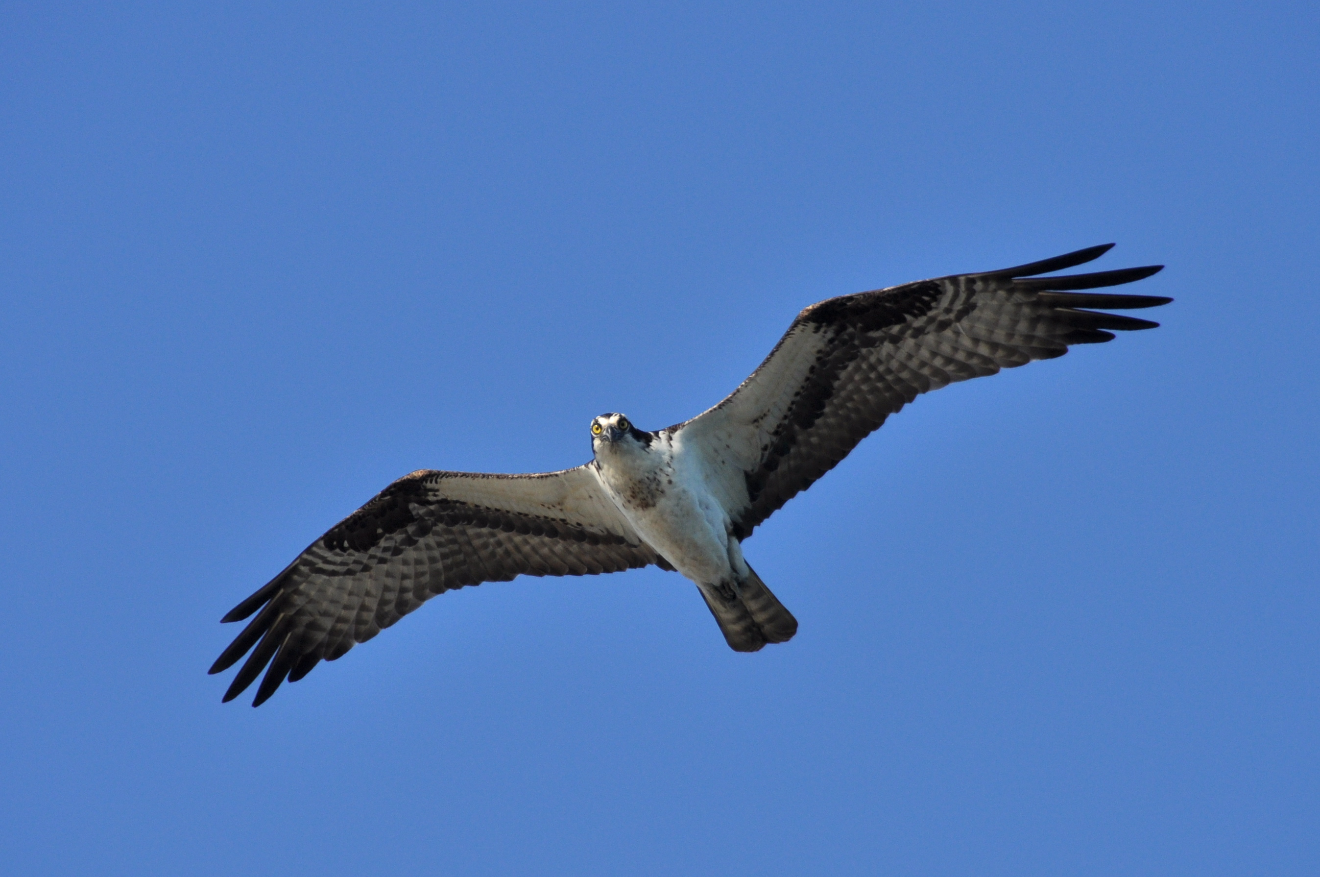 An Osprey flying in Falmouth, Massachusetts, USA.